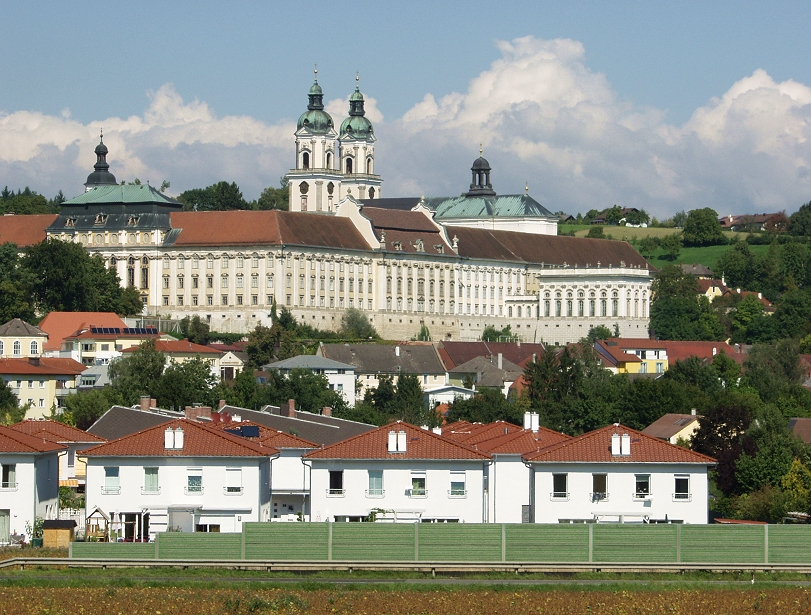 Monastery in St. Florian, Upper Austria